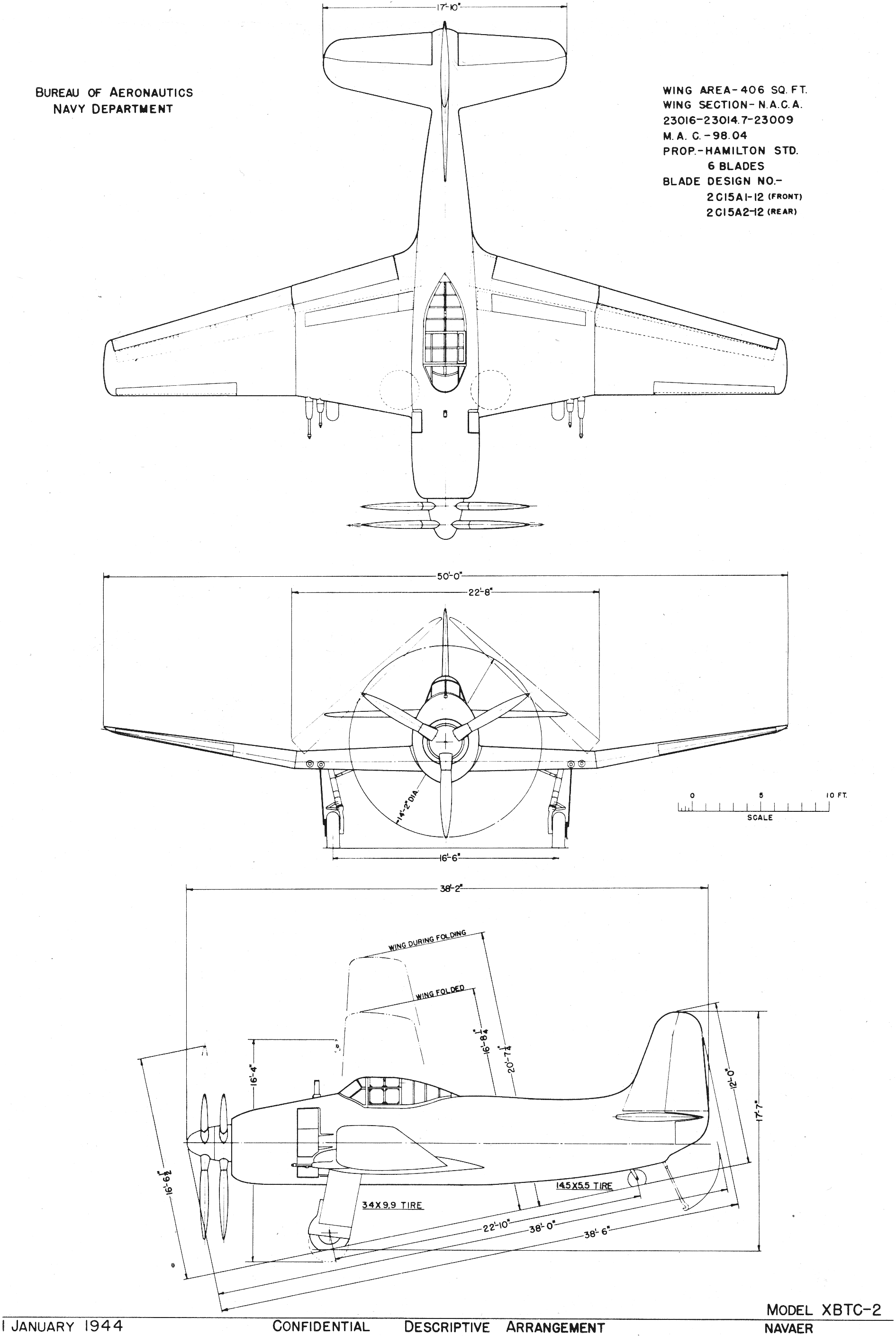 Line drawings for the Curtiss XBTC-2.